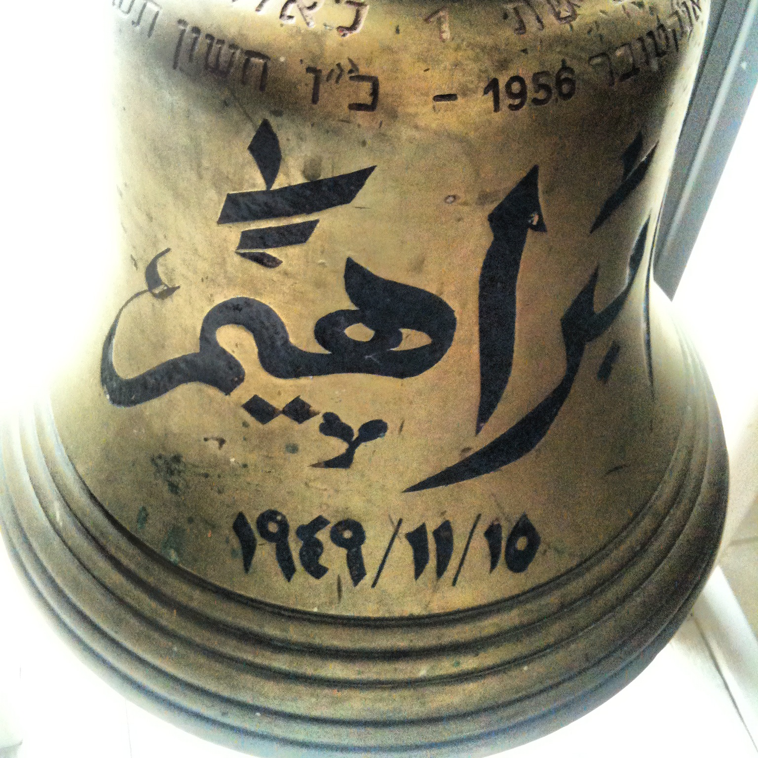 the mess bell of the Egyptian Ibrahim El Awal war ship